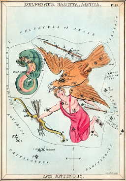 Antinous, as depicted in Urania's Mirror, a set of constellation cards published in London c.1825